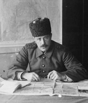 Abdulkerim Pasha during WWI.